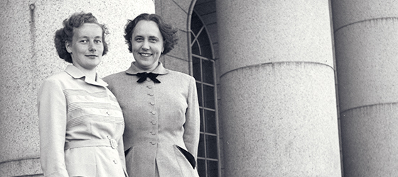 Photograph of the Finnish Members of Parliament Hertta Kuusinen and Anna-Liisa Tiekso at the stairs of the Parliament building, Helsinki.